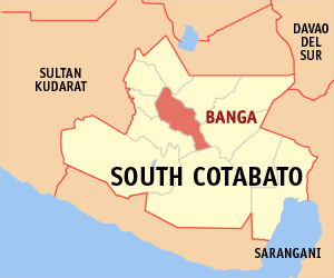 Map of the South Cotabato showing the location of Banga